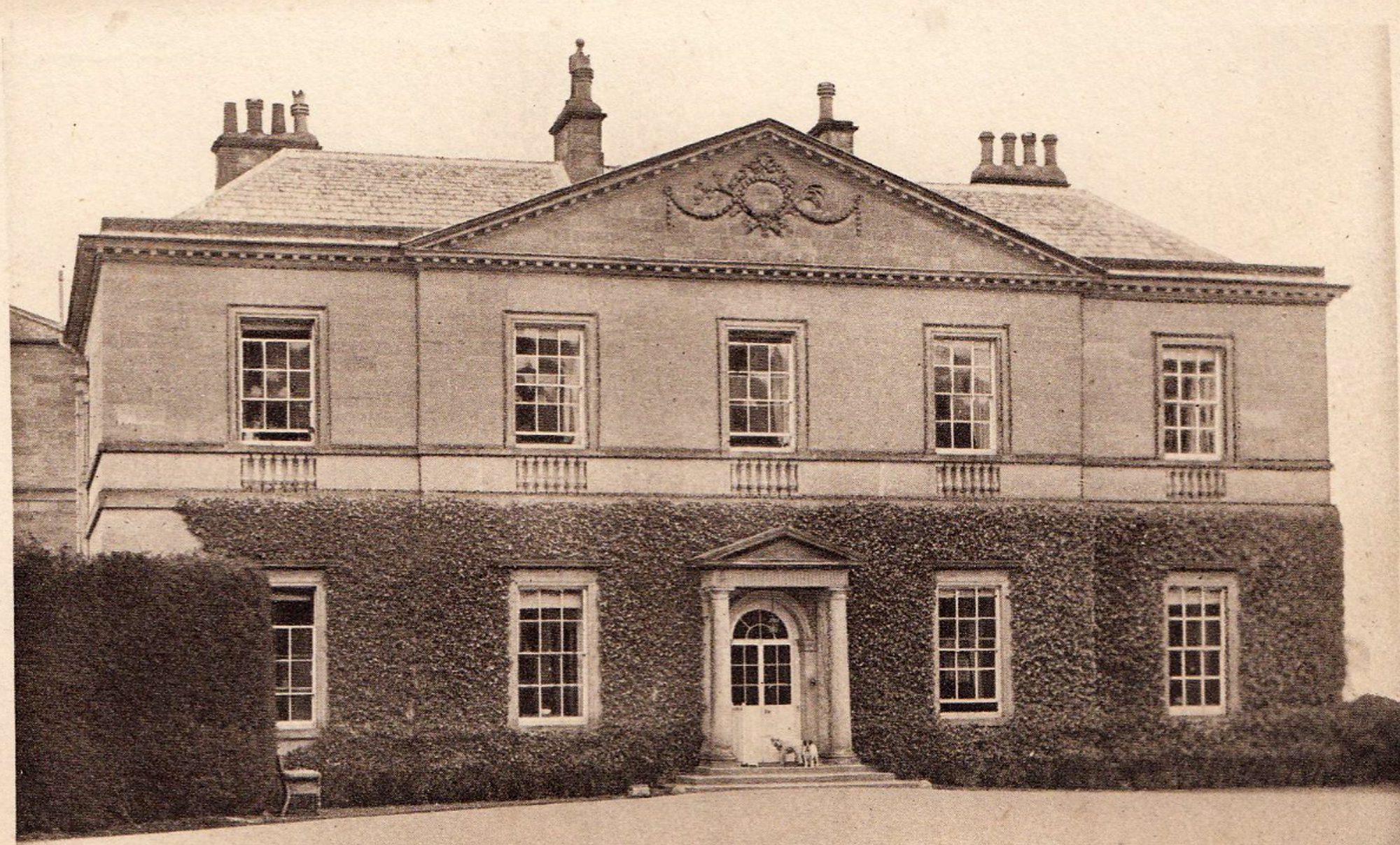 Middleton Lodge, Middleton Tyas circa 1900